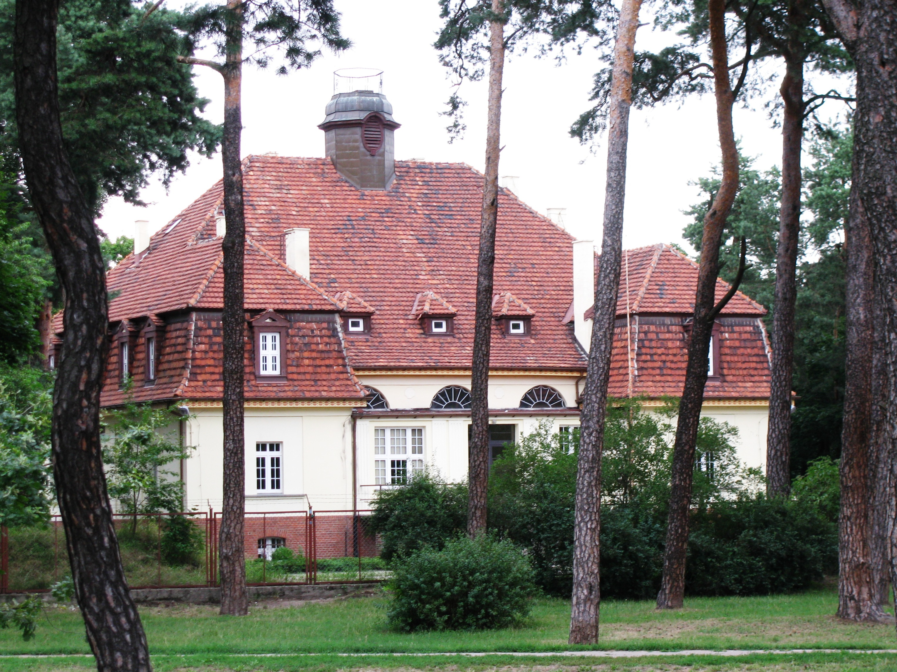 View B of Building II in Bydgoszcz Suburbs, Toruń. The Scotch Mist Gallery contains many photographs of historic buildings, monuments and memorials of Poland.